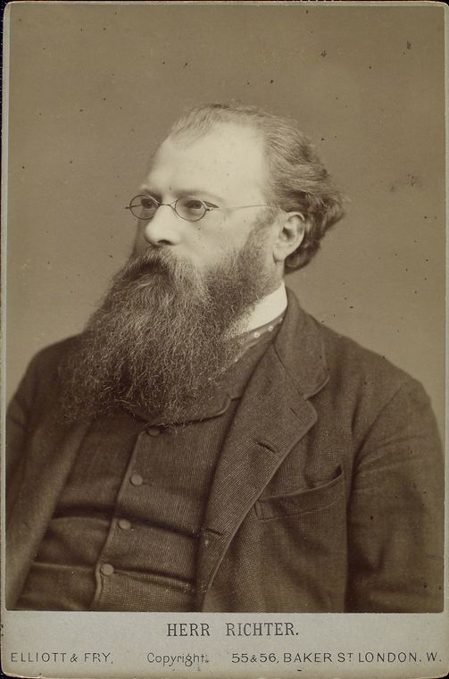 Austrian conductor Hans Richter